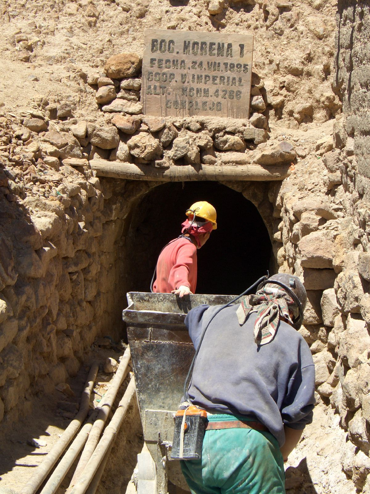 The miners work for up to 25 hours in one go. They dont eat the whole time they mine and they start mining as young as 13 years old.